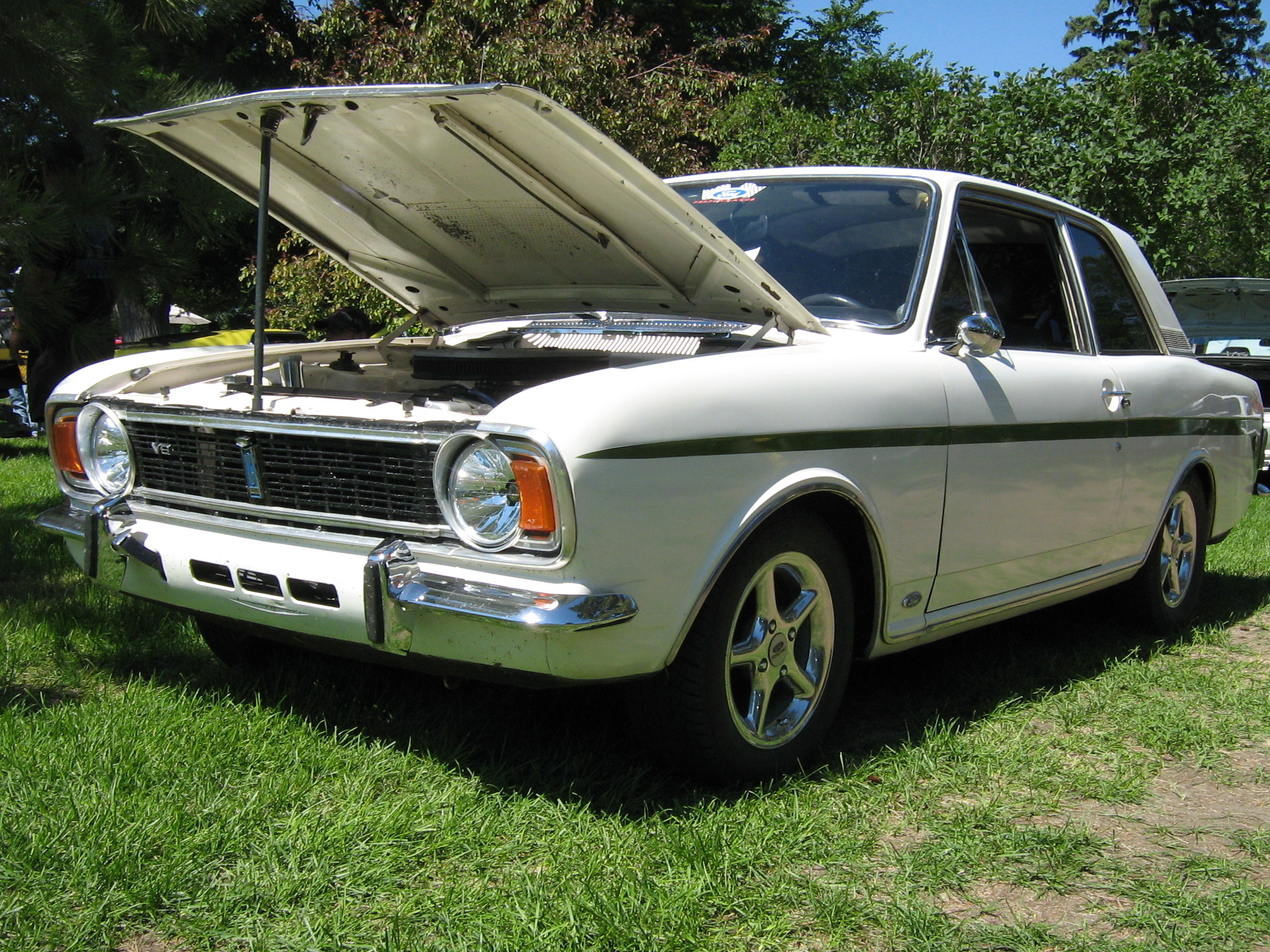 1968 Ford Cortina MkII with a V8 engine swap